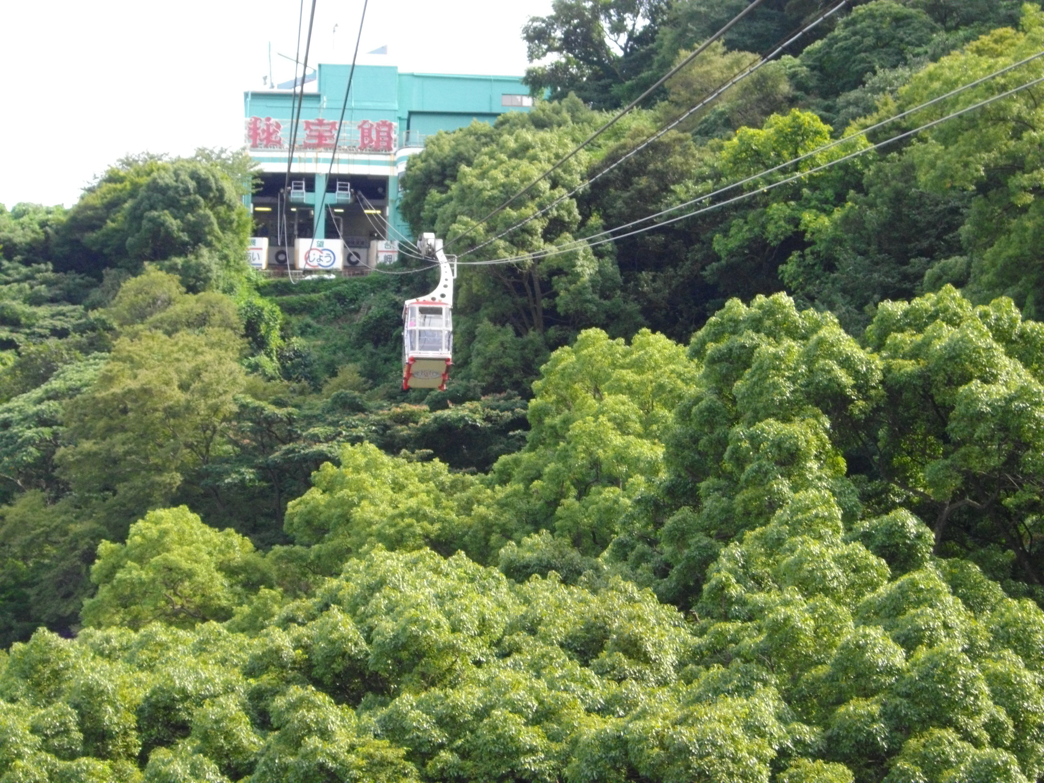 Atami Ropeway